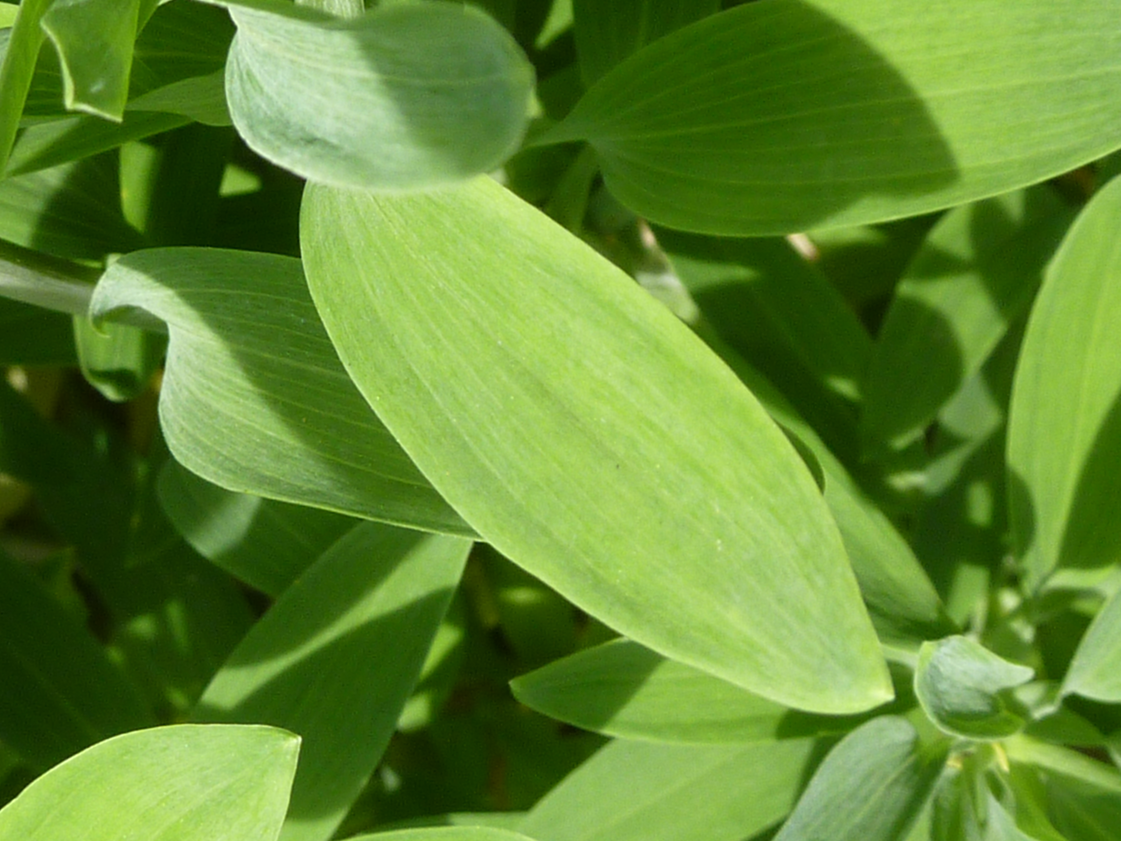 Taken in the Cambridge University Botanic Garden